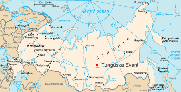 Map showing the approximate location of the Tunguska event of 1908.